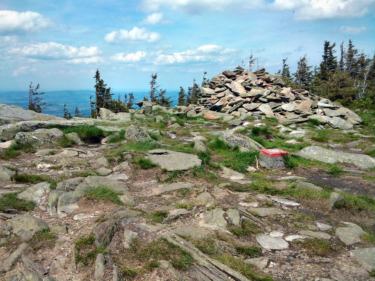 Summit of Tabule/Skalny Stół (1282 m) in the Giant Mountains.